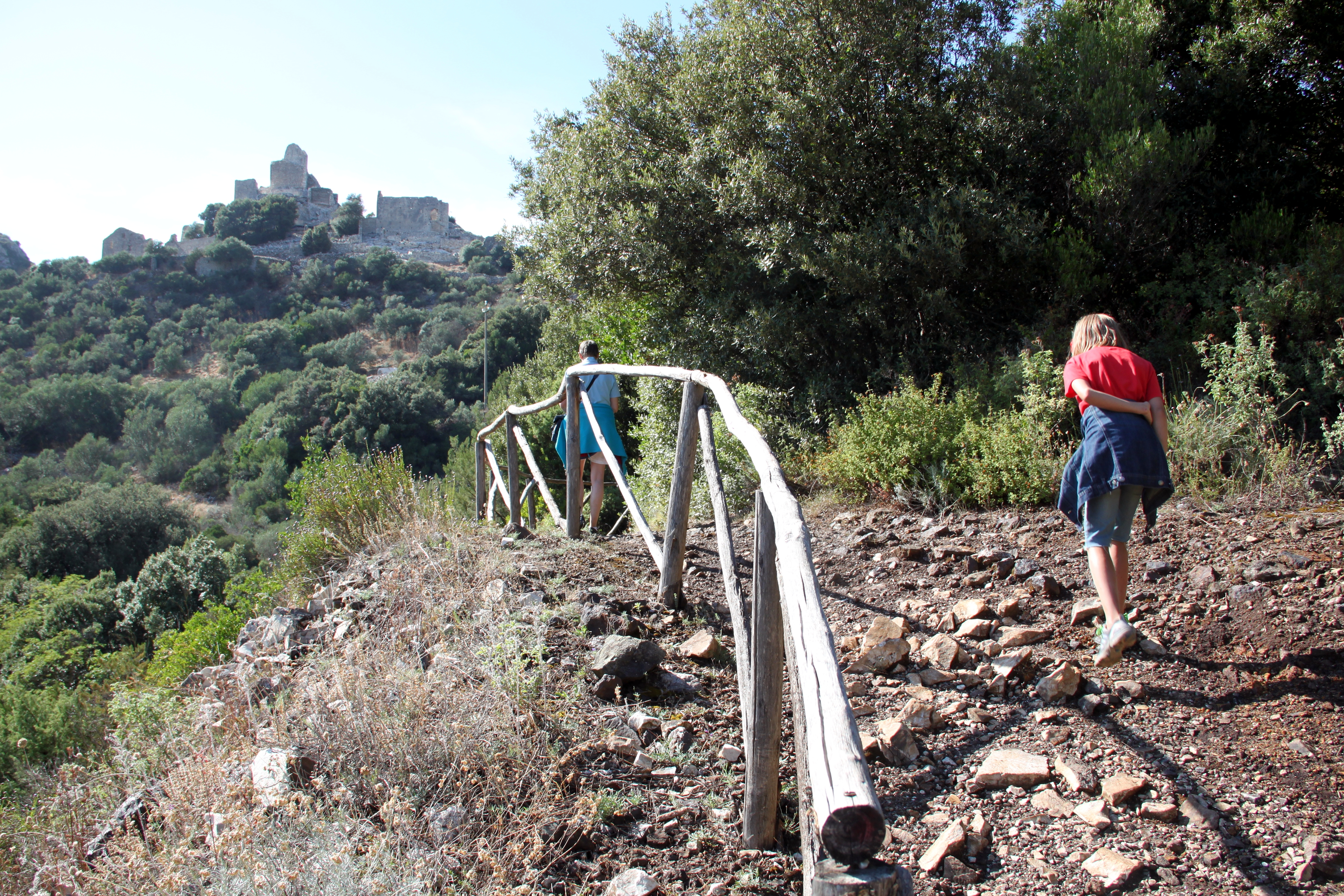 Parco archeominerario di San Silvestro: Path from the Lanzi Valley (Valle dei Lanzi) to San Silvestro Castle (Rocca San Silvestro)